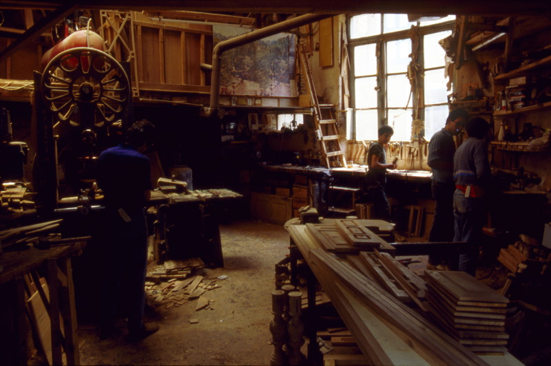 Greece